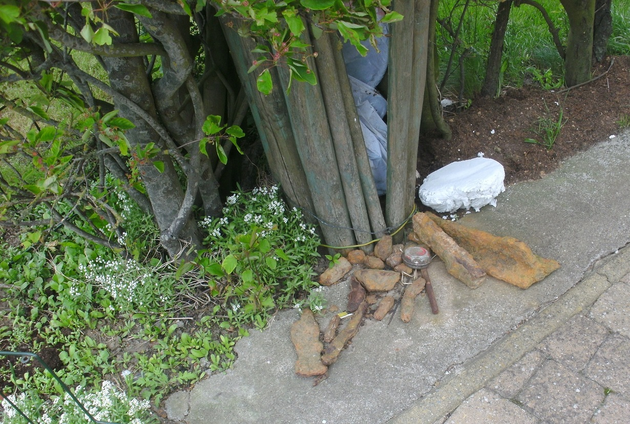 Passendale, Flanders, Belgium: shrapnel and other items of 'Iron Harvest'